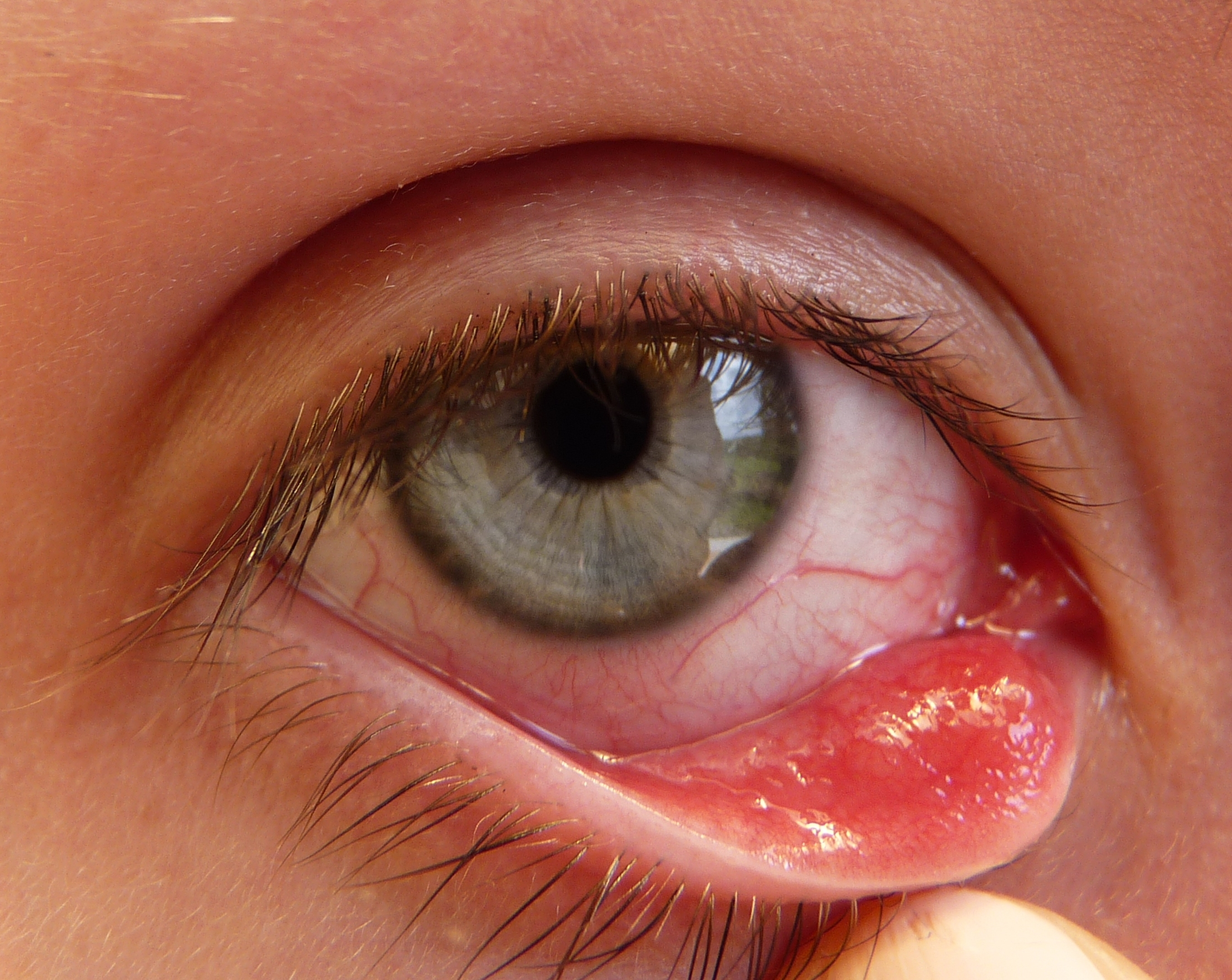 Chalazion on lower part of a person's eye